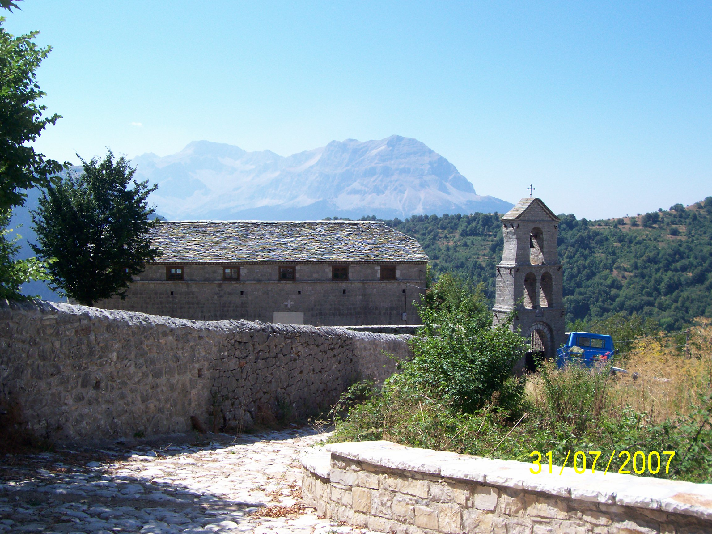 Trinity church in Kalarrytes, Greece. The church was originally built in 1818.